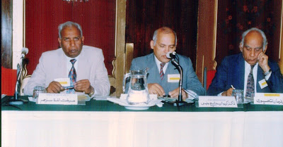 Dr. Farman Fatehpuri at a seminar organized by Special Teachers' and Parents' Resource Center, Karachi